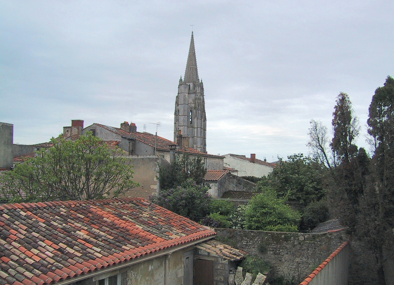 Roofs and church in Marennes, Charente-maritime (17), France